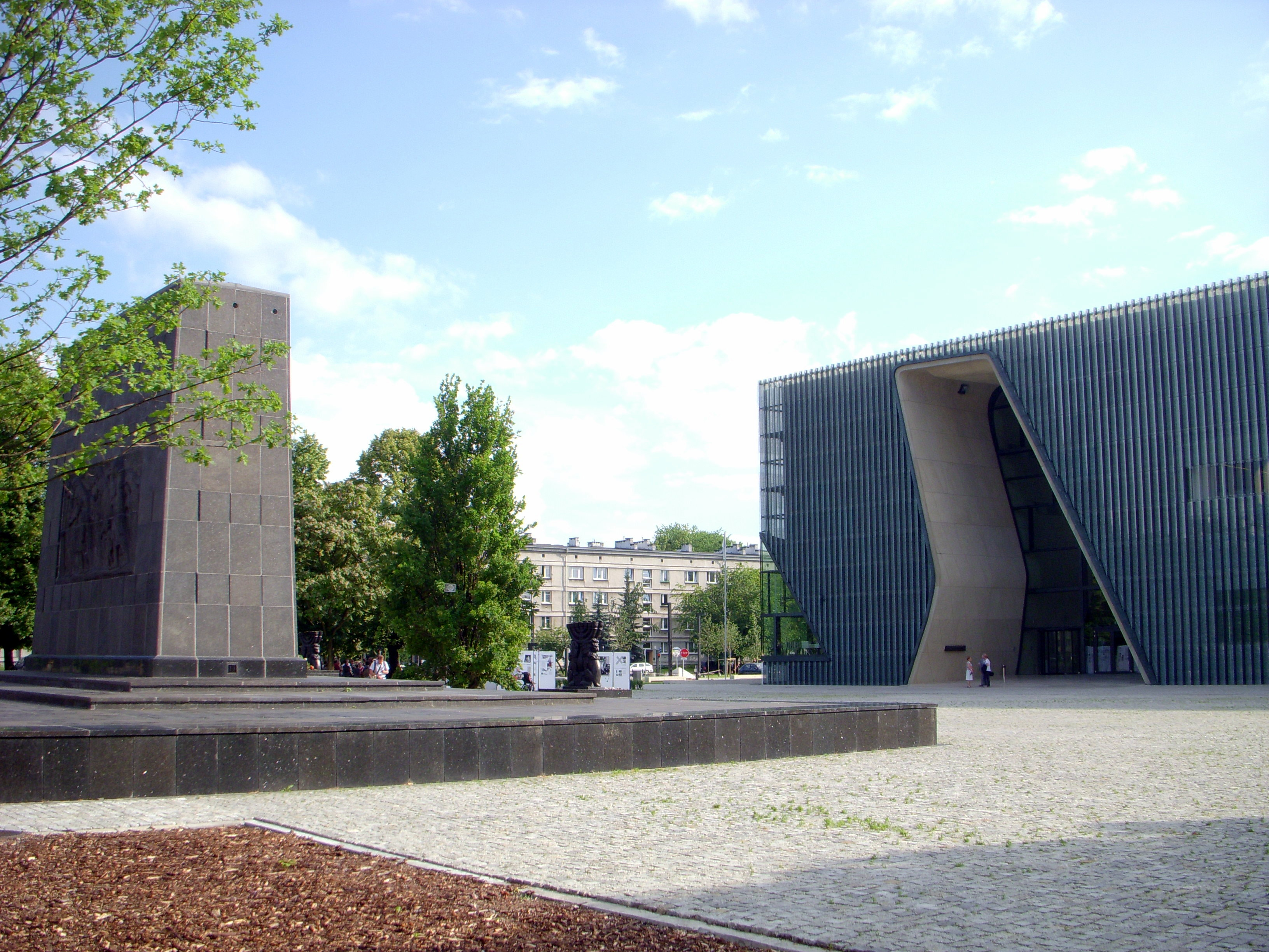 Entance to the Museum of the History of Polish Jews (right) and the Monument to the Ghetto Heroes (left)